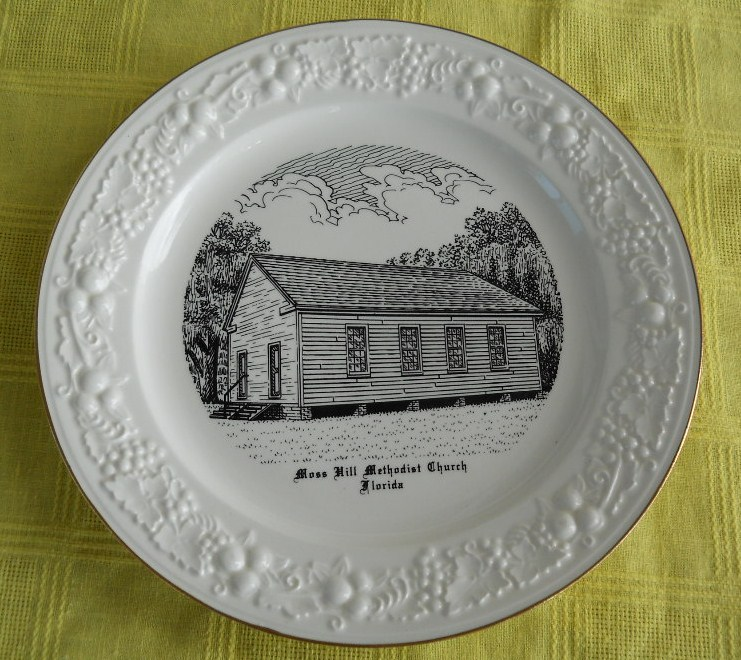 Commemorative church plate: Exterior of Moss Hill Methodist Church, near Vernon, Washington County, Florida